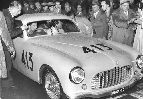 Entry #413 at Mille Miglia on28–29 April 1951 was 1951 Ferrari 195 Inter Motto Coupe s/n 0117S driven by Salvatore Ammendola / Guglielmo Pinzero (they ended in 15th place overall) [1]